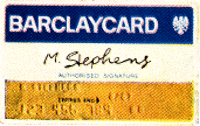 Scan of sample original Barclaycard (design of 1966-1983)